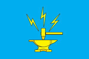 Dobryanka City in Perm Krai, Russia, new flag, 2006.